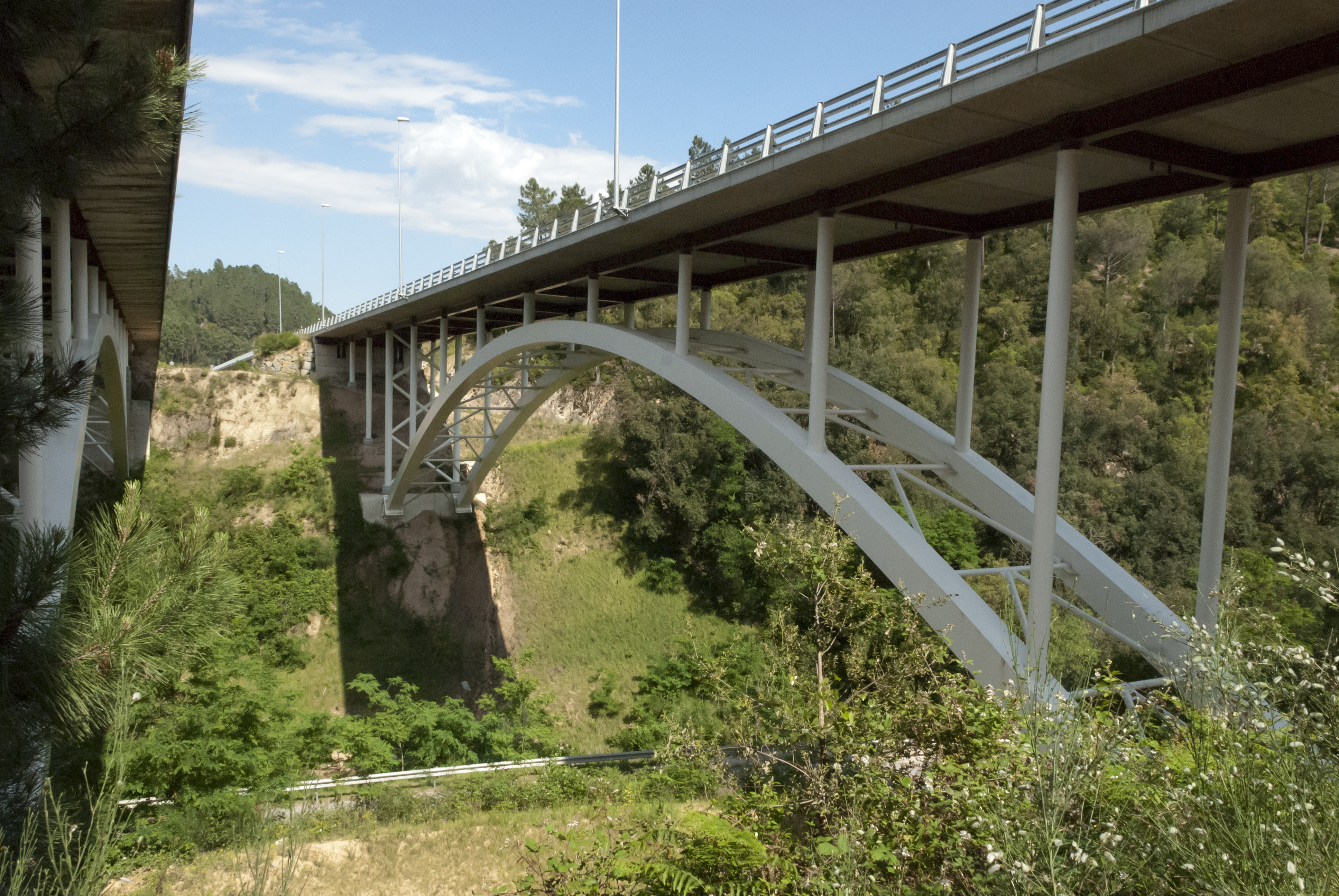 Image of Viaducte de les Foses (Catalonia).